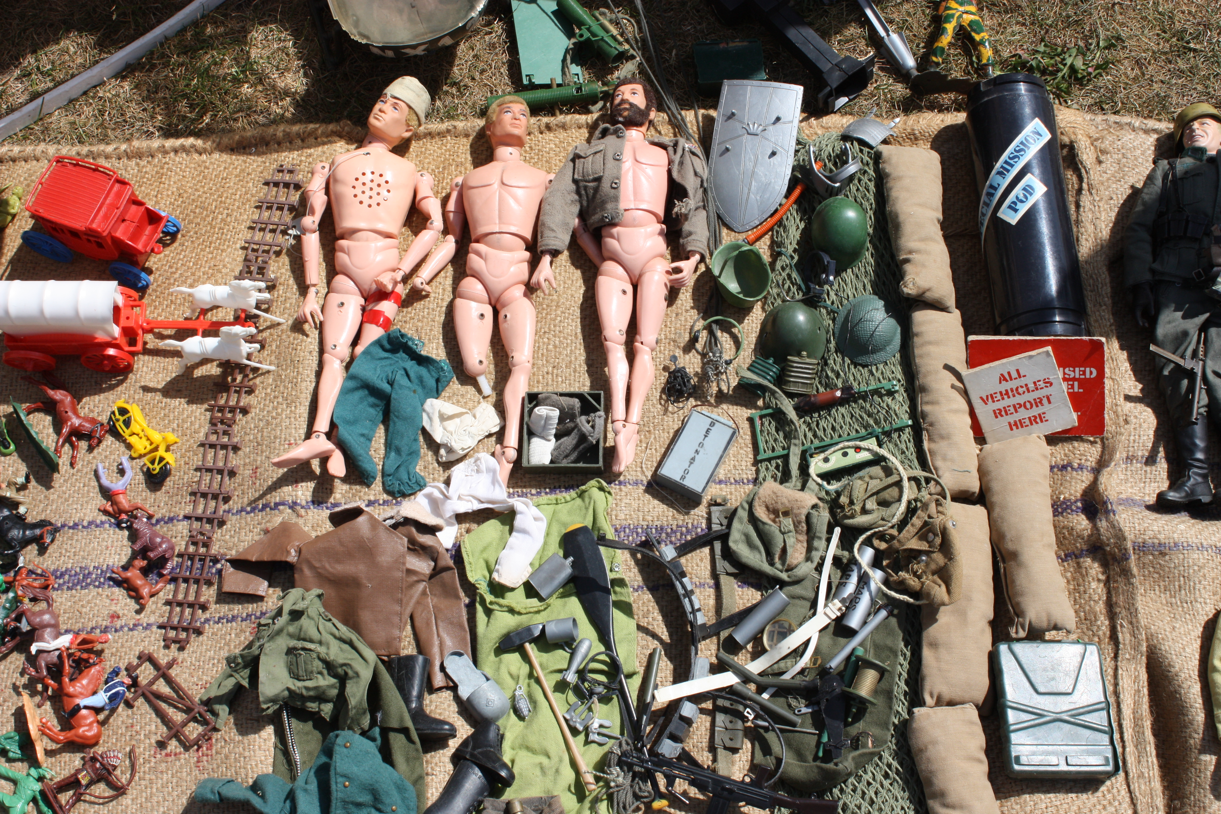 Stall at the Cambridge Big Day Out, Parker's Piece, Cambridge, Cambridgeshire, England, July 2010